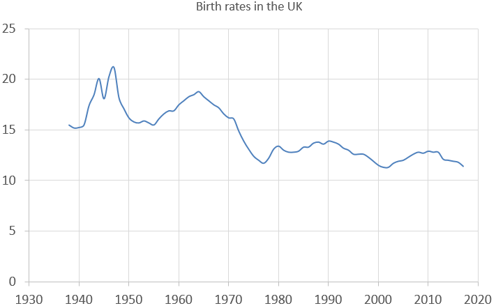 Birth rates in the UK from 1938 to 2017.[1]